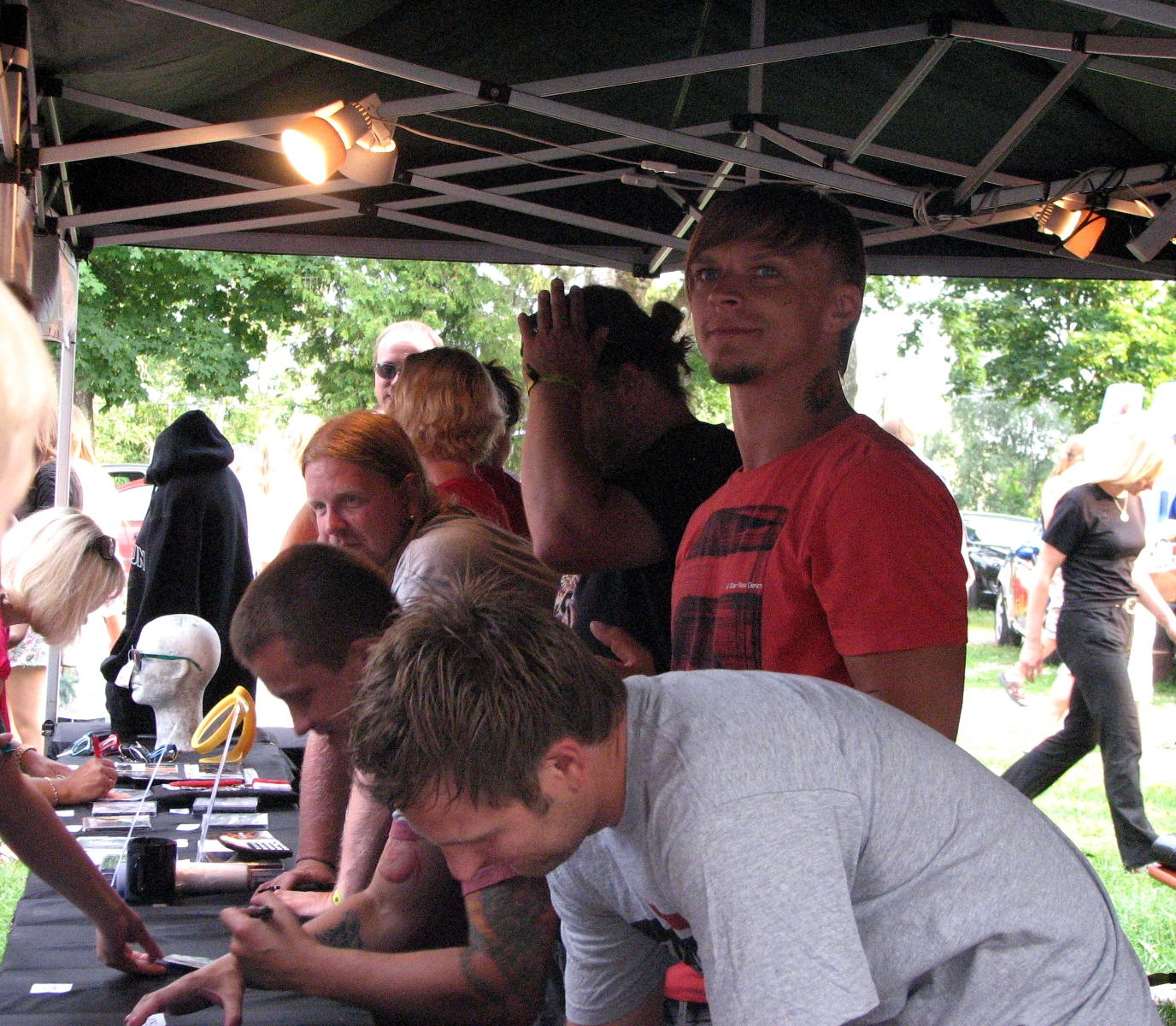 The members of The Sun giving autographs during SunFest 2010